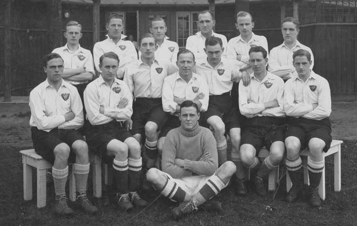 Regular team line-up including reserves of Boldklubben af 1893 — Group photo of the team including reserves in 1928.